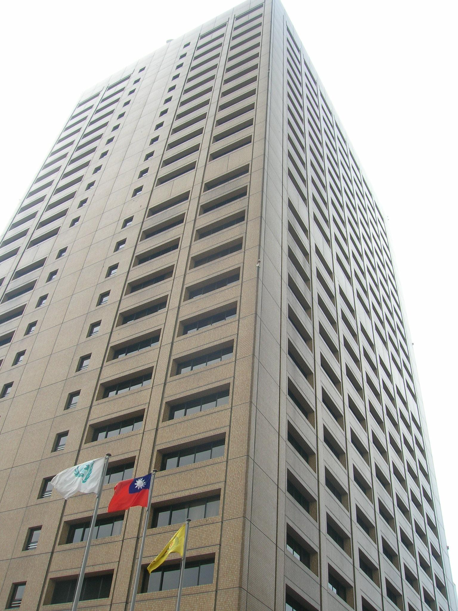 The headquarters of Taiwan Power Company, Taipei, Taiwan. Bân-lâm-gú: Tâi-uân Tiān-li̍k Kong-si Tsóng-kuán-lí-tshù. 臺灣電力公司總管理處。